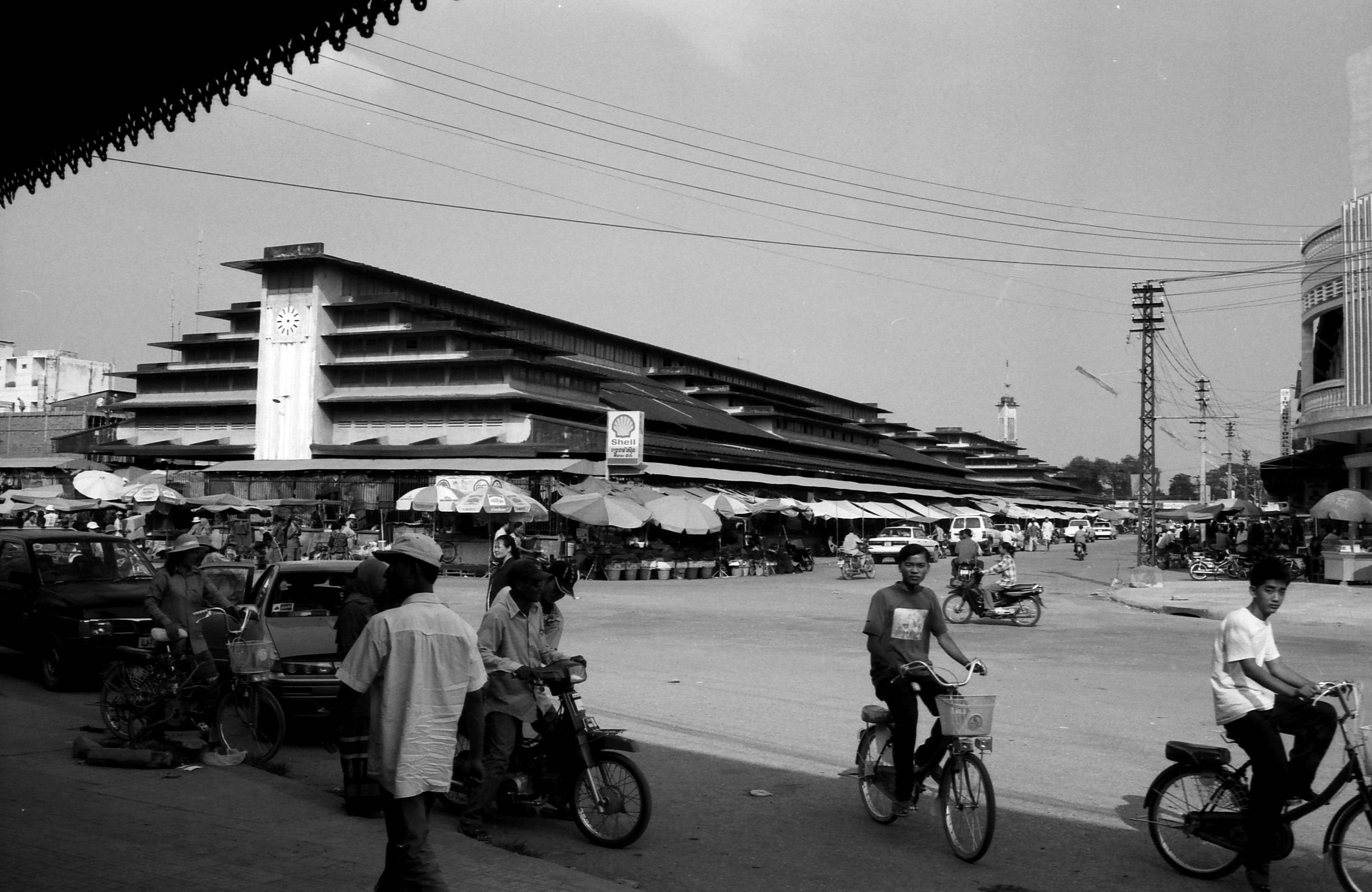 A view of the market in May 2000.